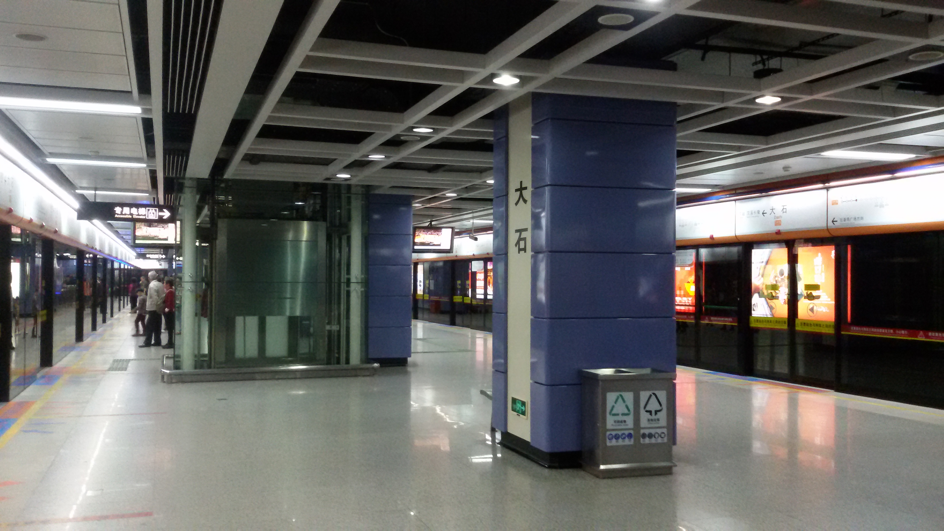 Station Platform for Dashi Station in Guangzhou Metro.